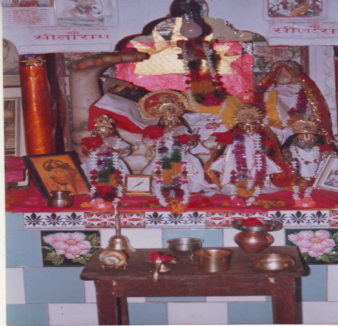 The original photo of Bhagwan shri Chakra Madhav situated at chakra madhav peeth, Arail, Tirthraj prayag.